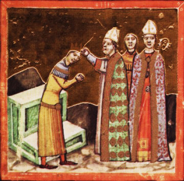 Coronation of Ladislaus III of Hungary